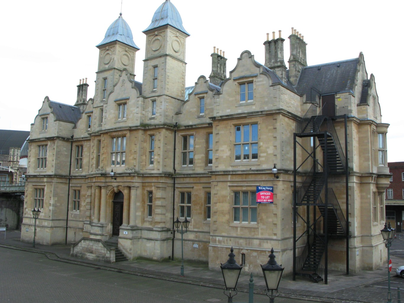 The former Bristol and Exeter Railway headqaurters building, now known as Bristol and Exeter House, at Temple Meads station, Bristol, England. It was designed by local architect Samuel Fripp in Jacobean style.